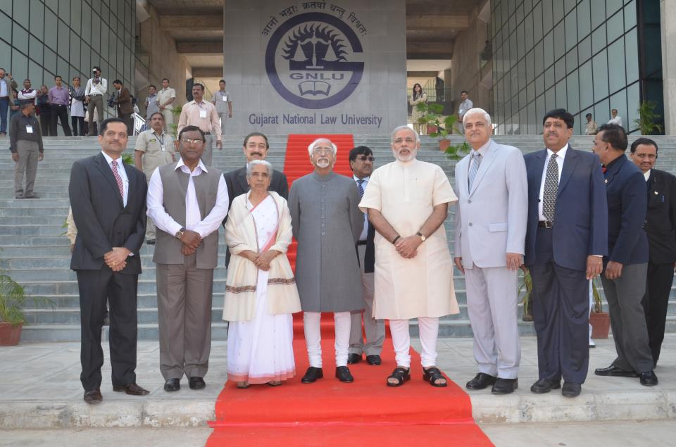 GNLU Vice President of India